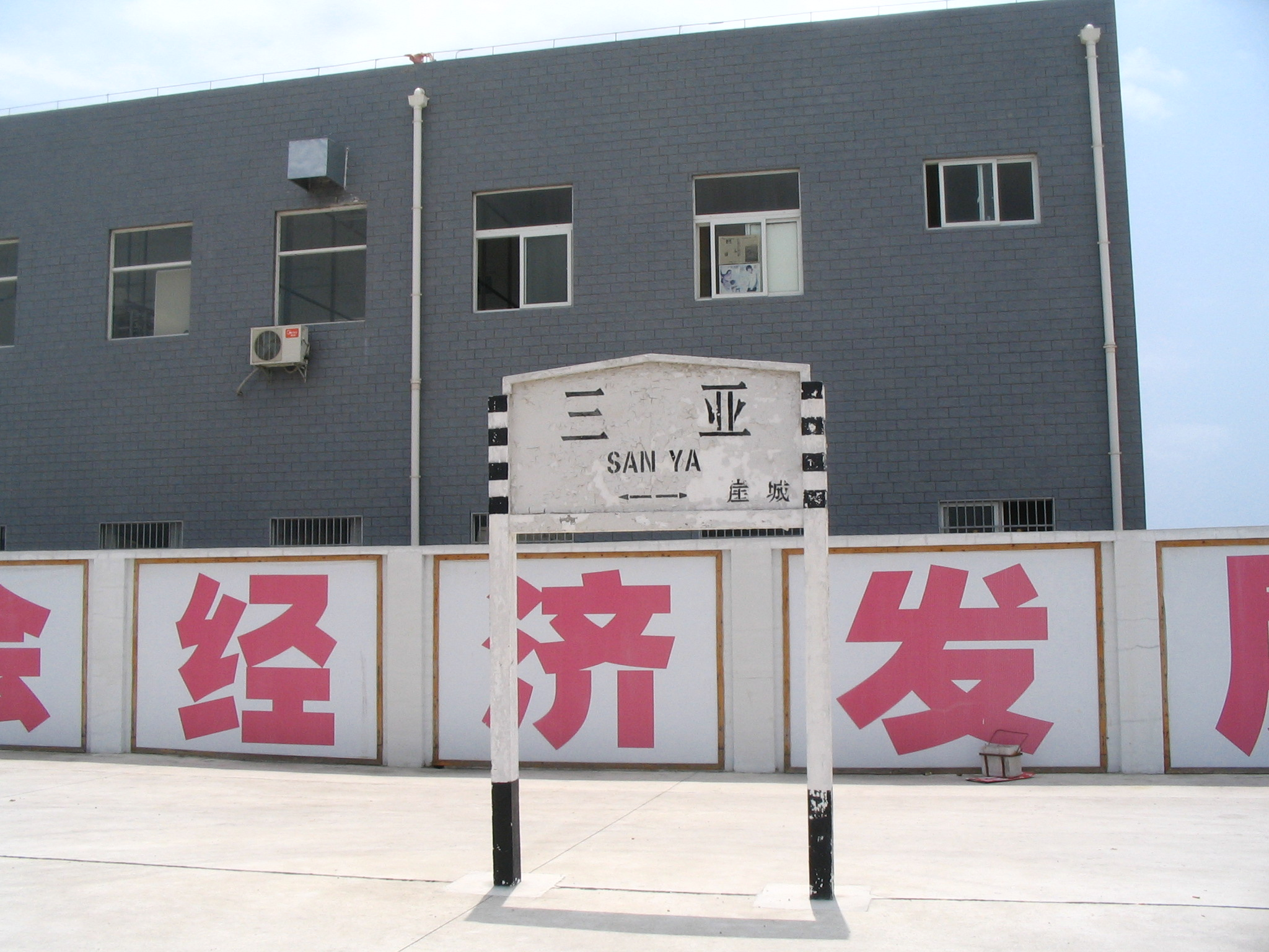 The ' — in Sanya, Hainan Province, Southeast China. Credits